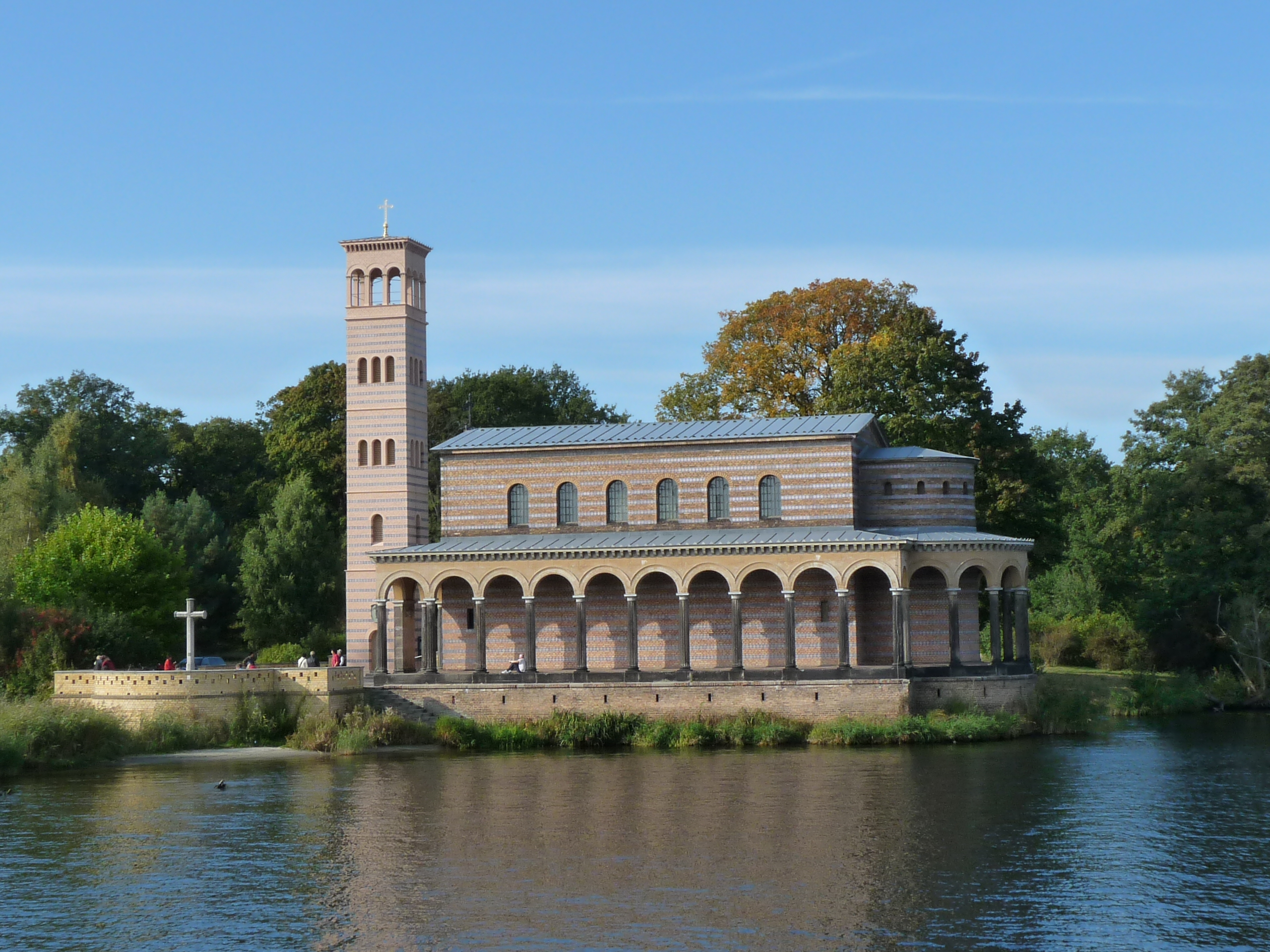 The Protestant "Church of the Redeemer, Sacrow", Potsdam, Germany, after finish of renovation of the bell tower.